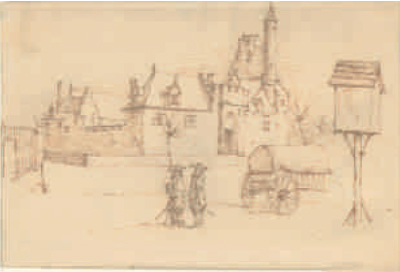 Drawing of the castle of Relegem in Zemst, by Constantijn Huygens jr. in 1676